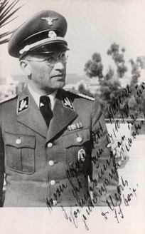 SS-Brigadeführer and Generalmajor der Polizei Dr.-Ing. Wilhelm Albert